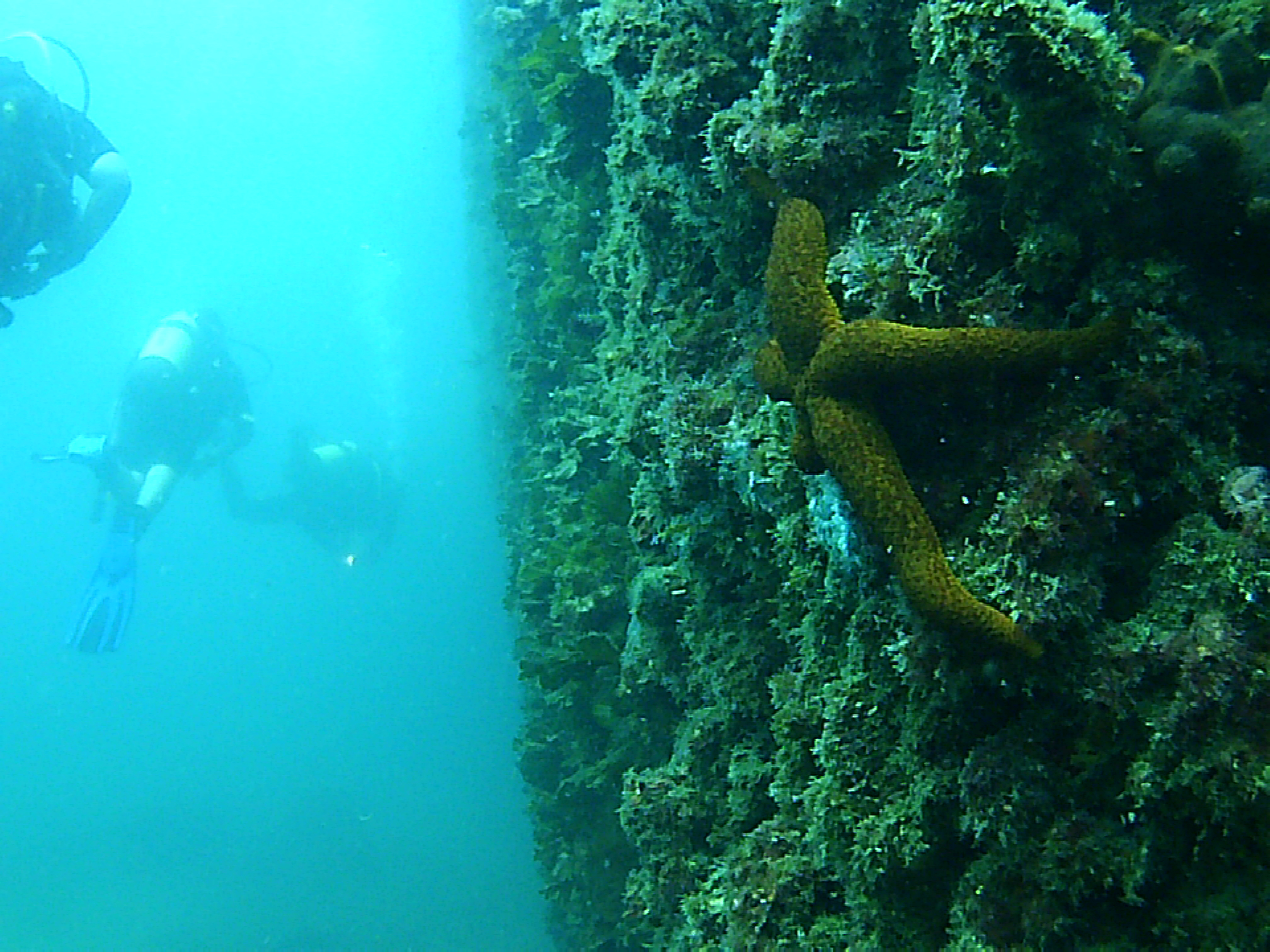 Sea star and pillars - Underwater Archaeological Park of Baiae